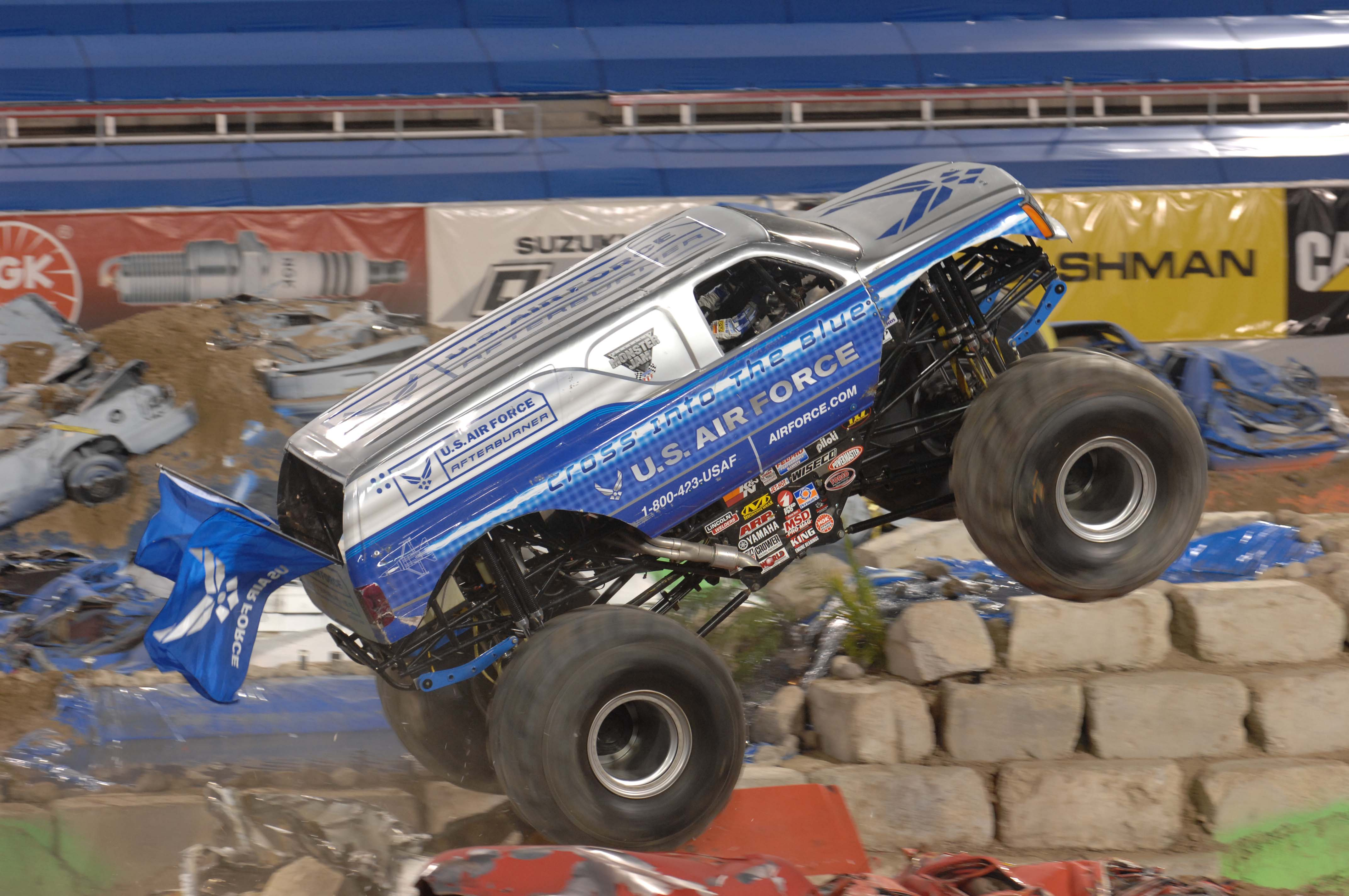 Damon Bradshaw, driver of the U.S. Air Force Afterburner monster truck, rumbles through the obstacle course during the Monster Jam World Finals at Sam Boyd Stadium in Las Vegas, Nev., March 29, 2008. Monster Jam World Finals, which consists of racing and freestyle segments, is an annual monster truck event.